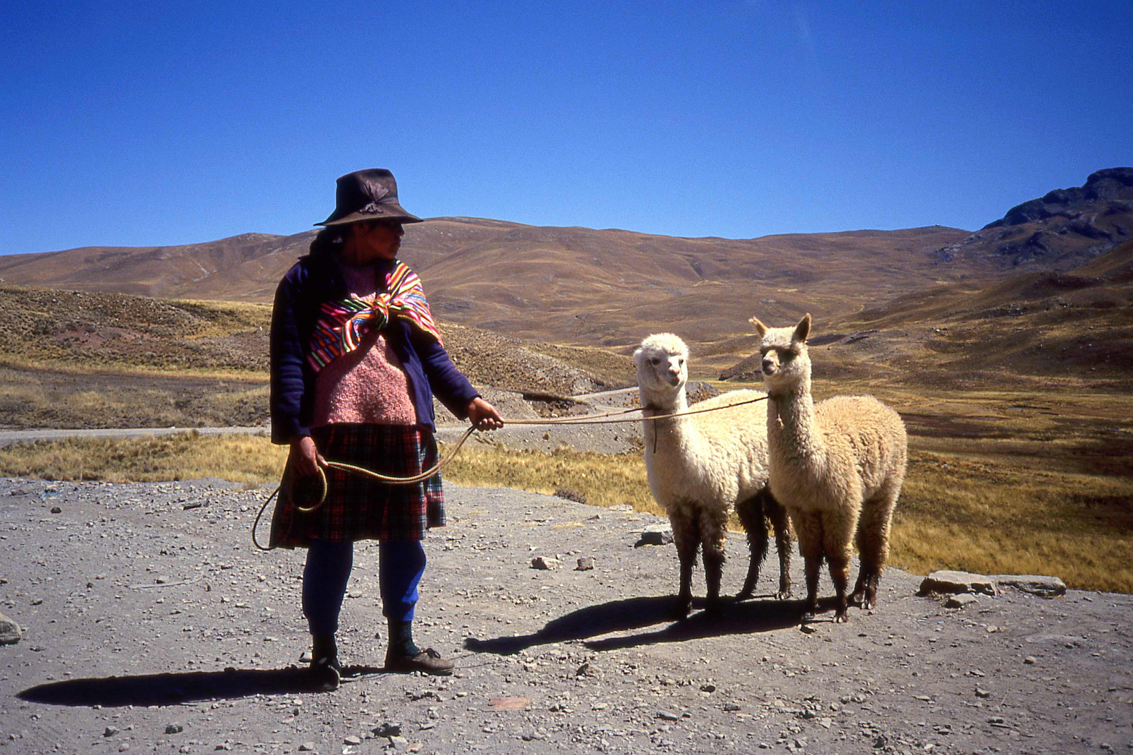 Andean woman with alpaca in Huascarán National Park (Perù)